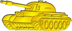 Armored troops branch insignia of Ukraine.